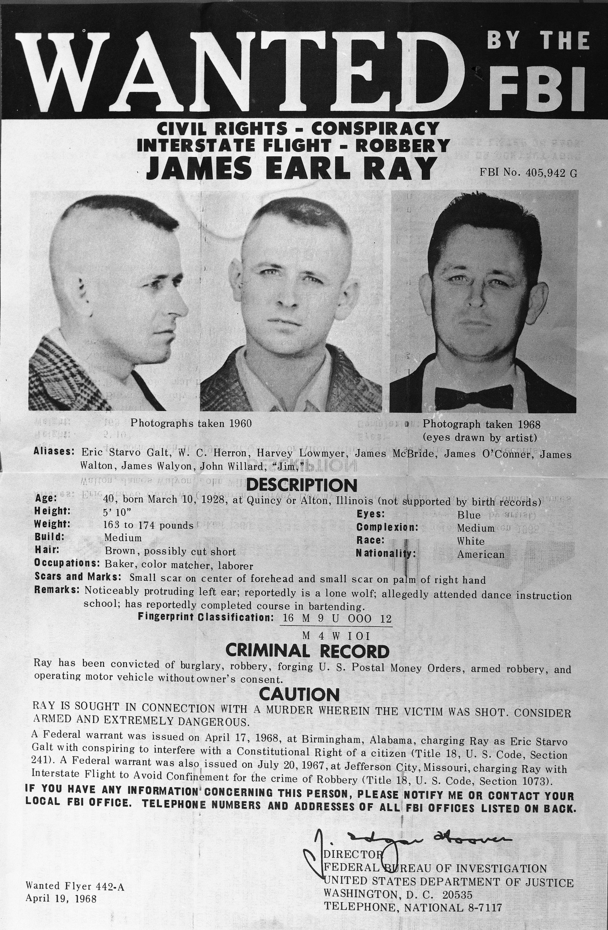 FBI wanted poster fugitive poster of James Earl Ray; the later convicted murderer of civil rights leader and anti-war activist, Dr. Martin Luther King, Jr.